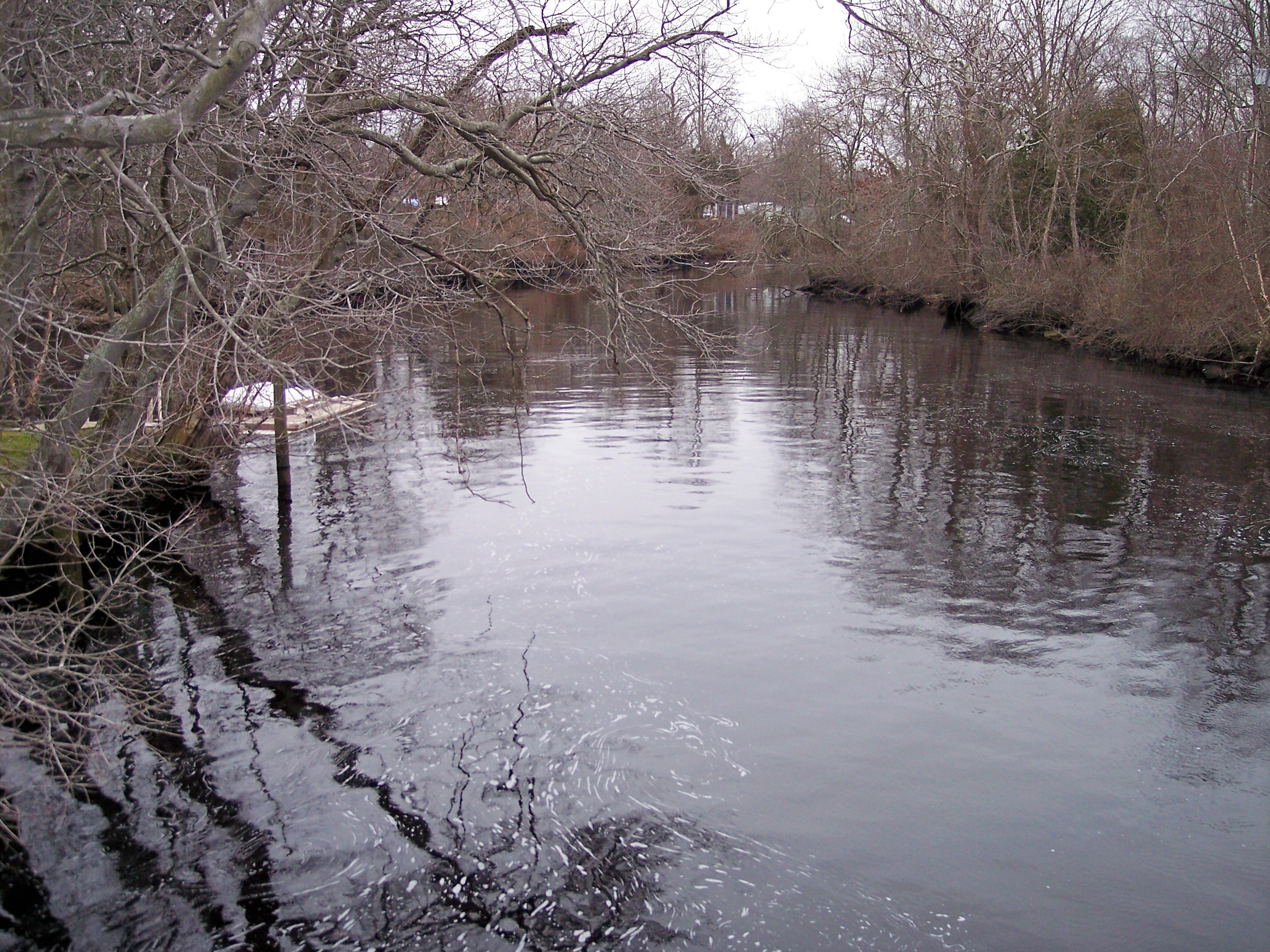 The Great Egg Harbor River, as viewed downstream from Mill Street (New Jersey Route 559) in Mays Landing, New Jersey